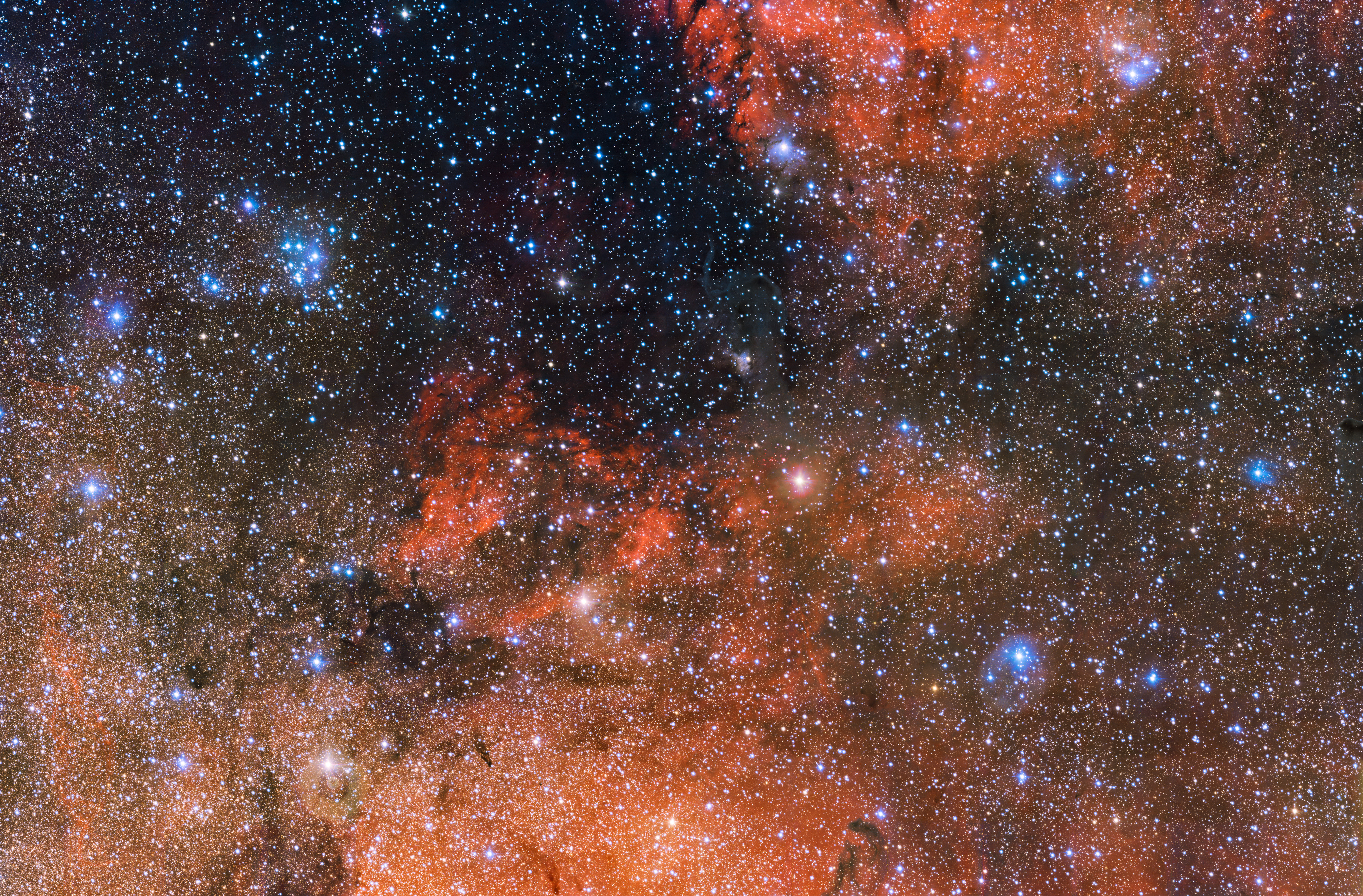 The small smattering of bright blue stars upper left of centre in this huge 615 megapixel ESO image is the perfect cosmic laboratory in which to study the life and death of stars. Known as Messier 18 this open star cluster contains stars that formed together from the same massive cloud of gas and dust. This image was captured by the OmegaCAM camera attached to the VLT Survey Telescope (VST) located at ESO’s Paranal Observatory in Chile.